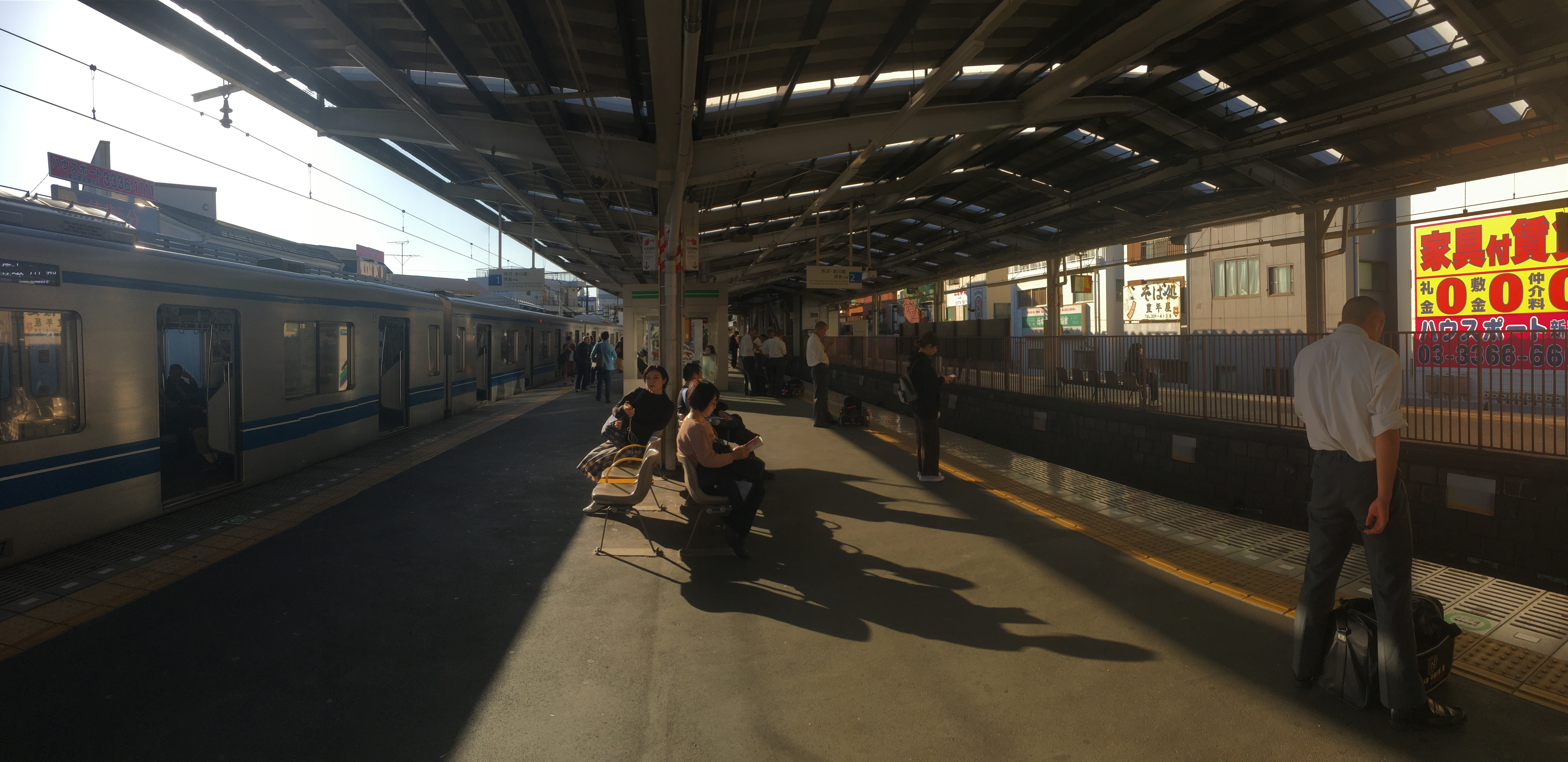 鷺ノ宮駅のホーム (Saginomiya Station platform)